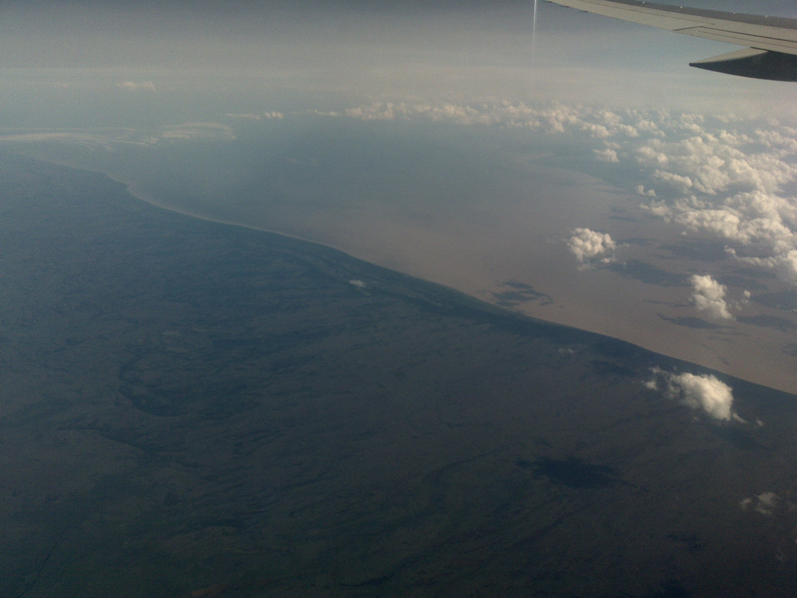 Western, straight coast of Akimiske Island, James Bay, Canada. Photo from Icelandair route carrier. Angle seen from north towards south.